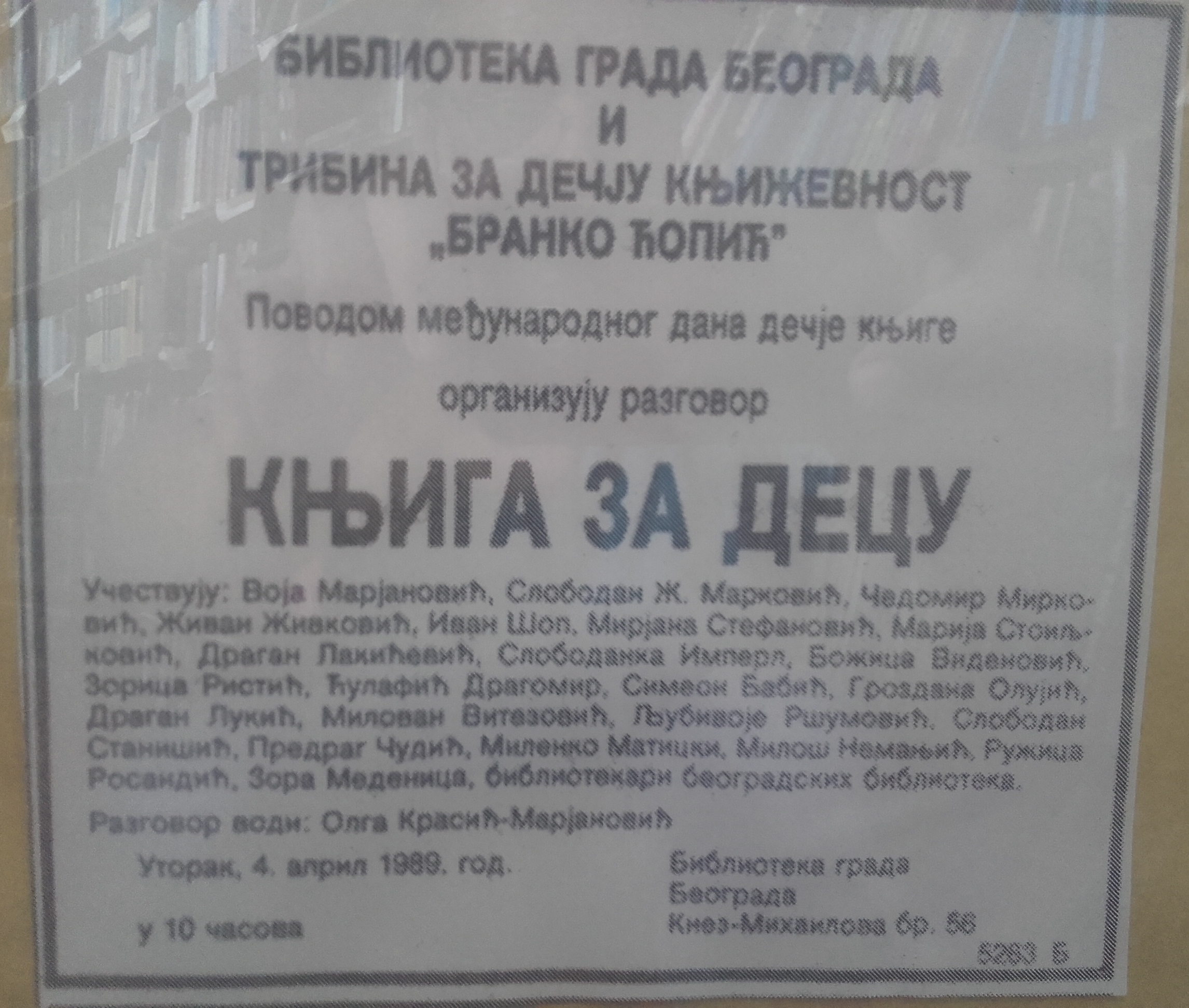 A tribune of literature for children and youth "Branko Ćopić" Srpski (latinica): Tribina književnosti za decu i omladinu "Branko Ćopić"